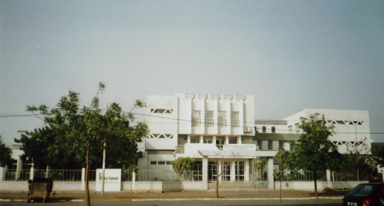 Institute of Paedagogics, Achada de Santo António, Praia, Cape Verde.